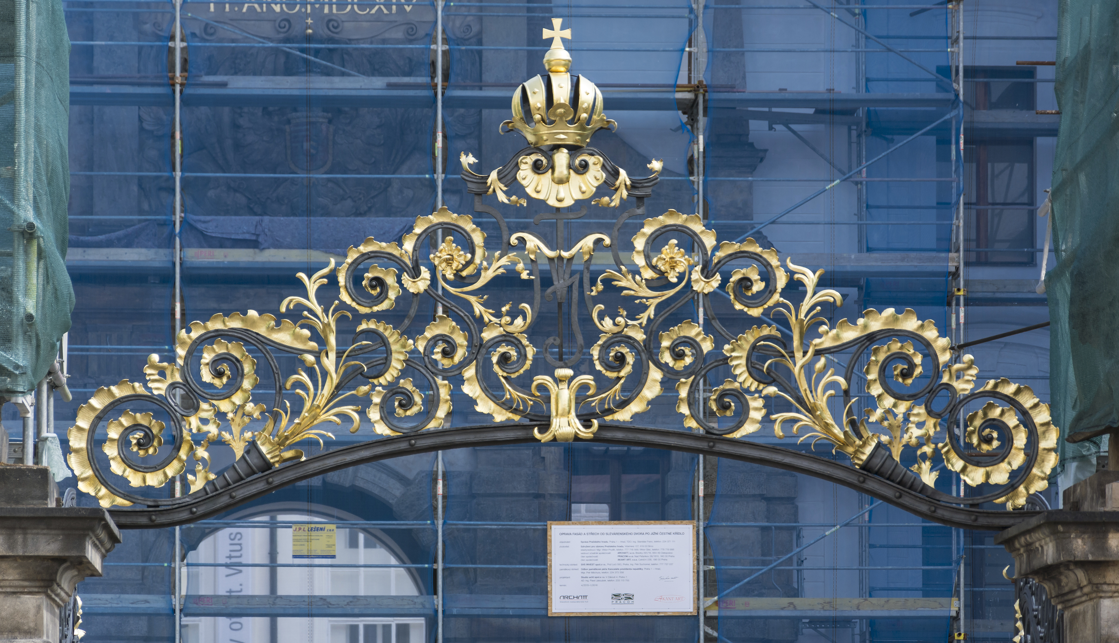 New Royal Palace in Prague Castle, main gate